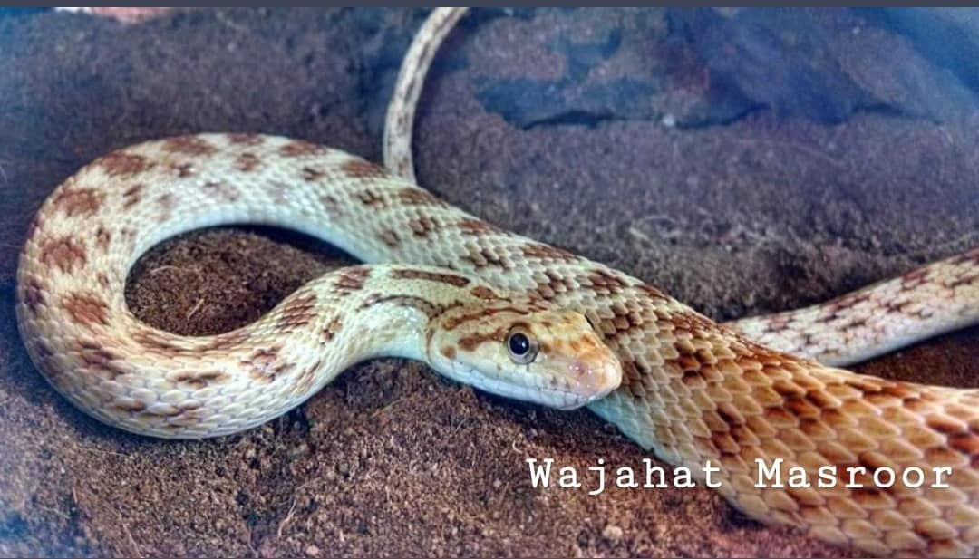 a female in captivity in Karachi, Pakistan for conservation projects.